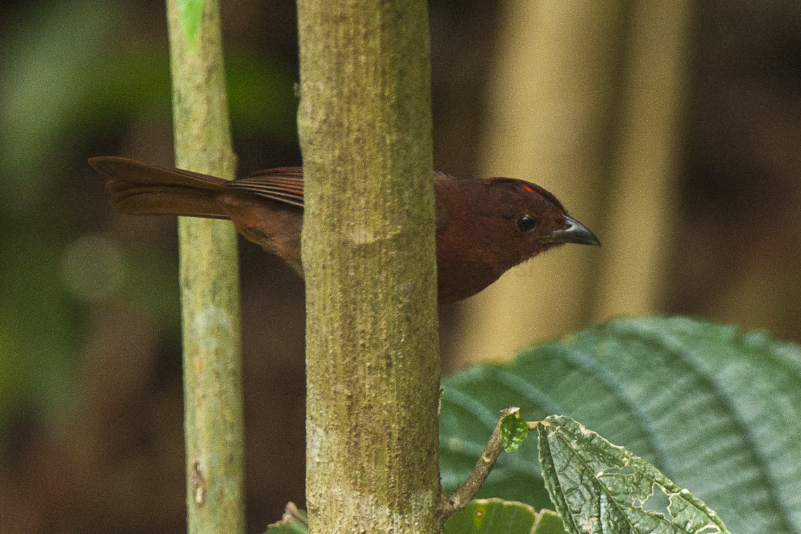 Red-crowned Ant-Tanager - Panama_H8O9846